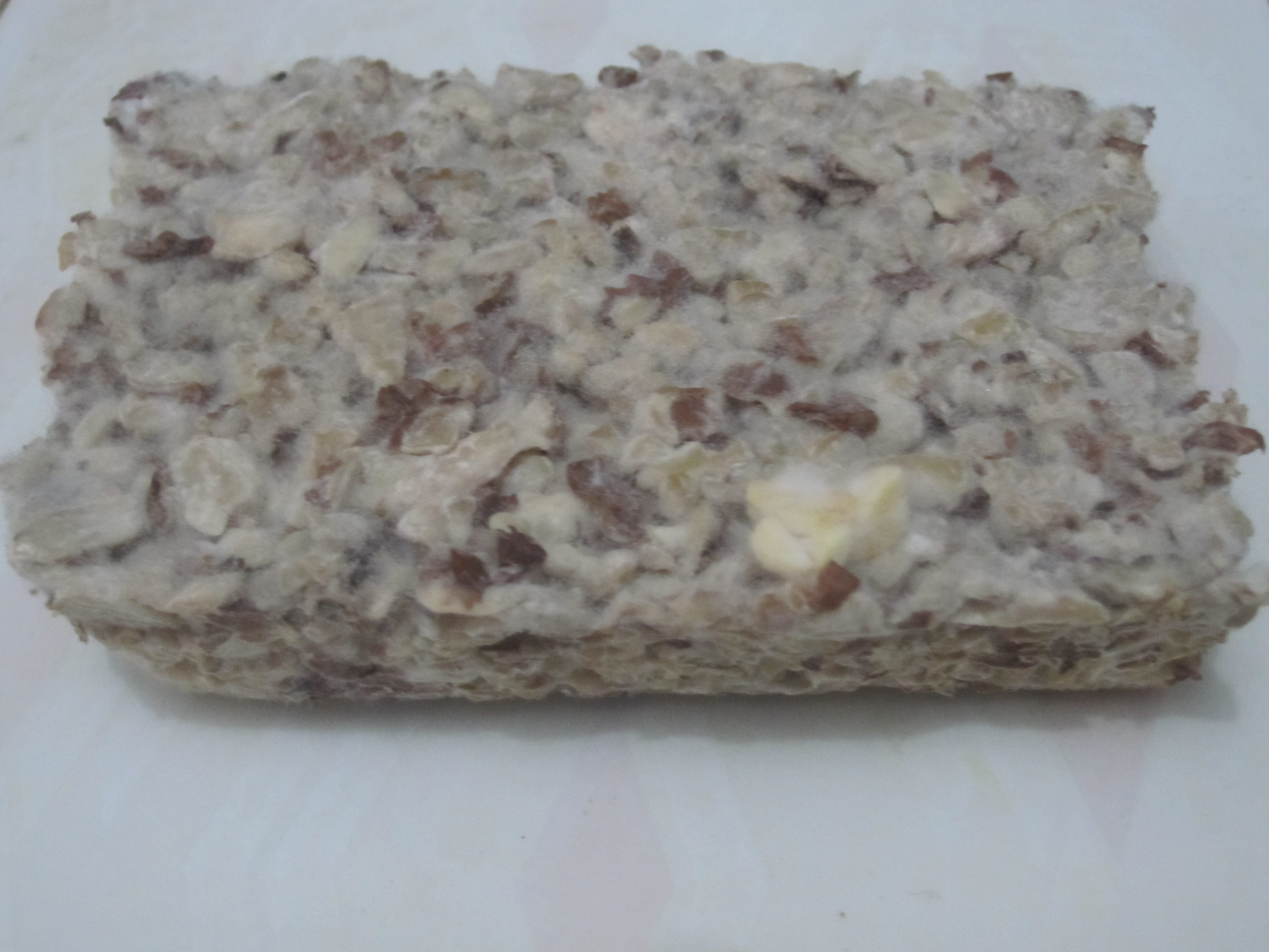 A loaf of uncooked tempe menjes, a variation of the Indonesian food tempeh found in Malang, East Java, made of peanut (& maybe coconut) presscake.